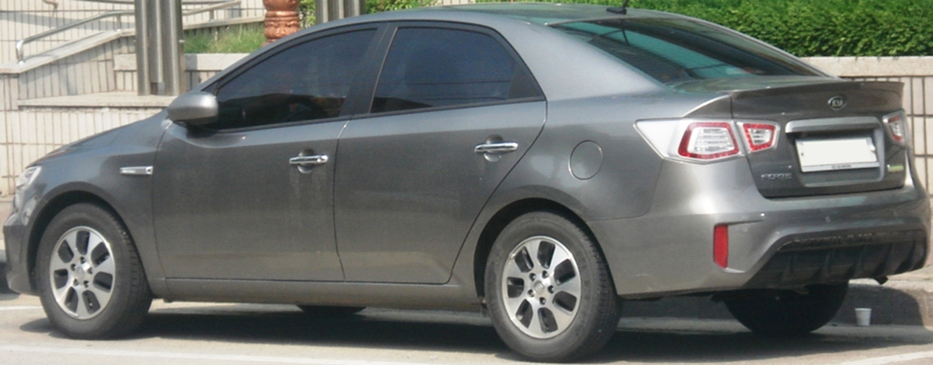 Kia Forte Hybrid LPi